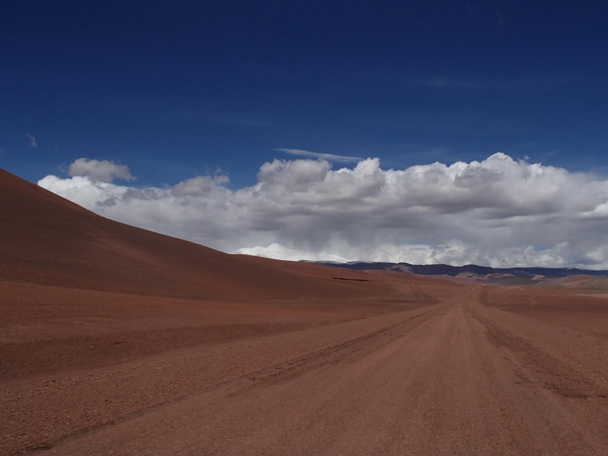 Pircas Negras pass, Argentine side of the border.